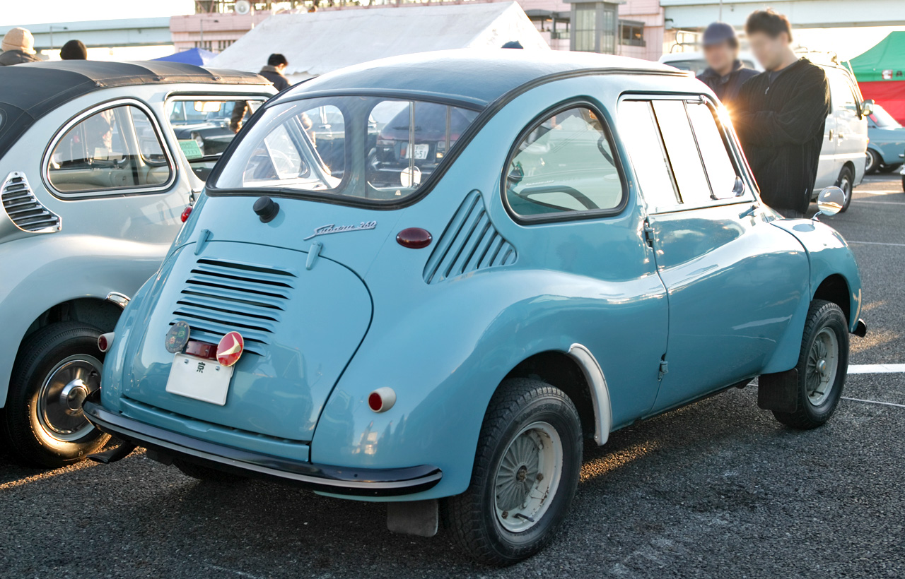 Subaru 360 early model